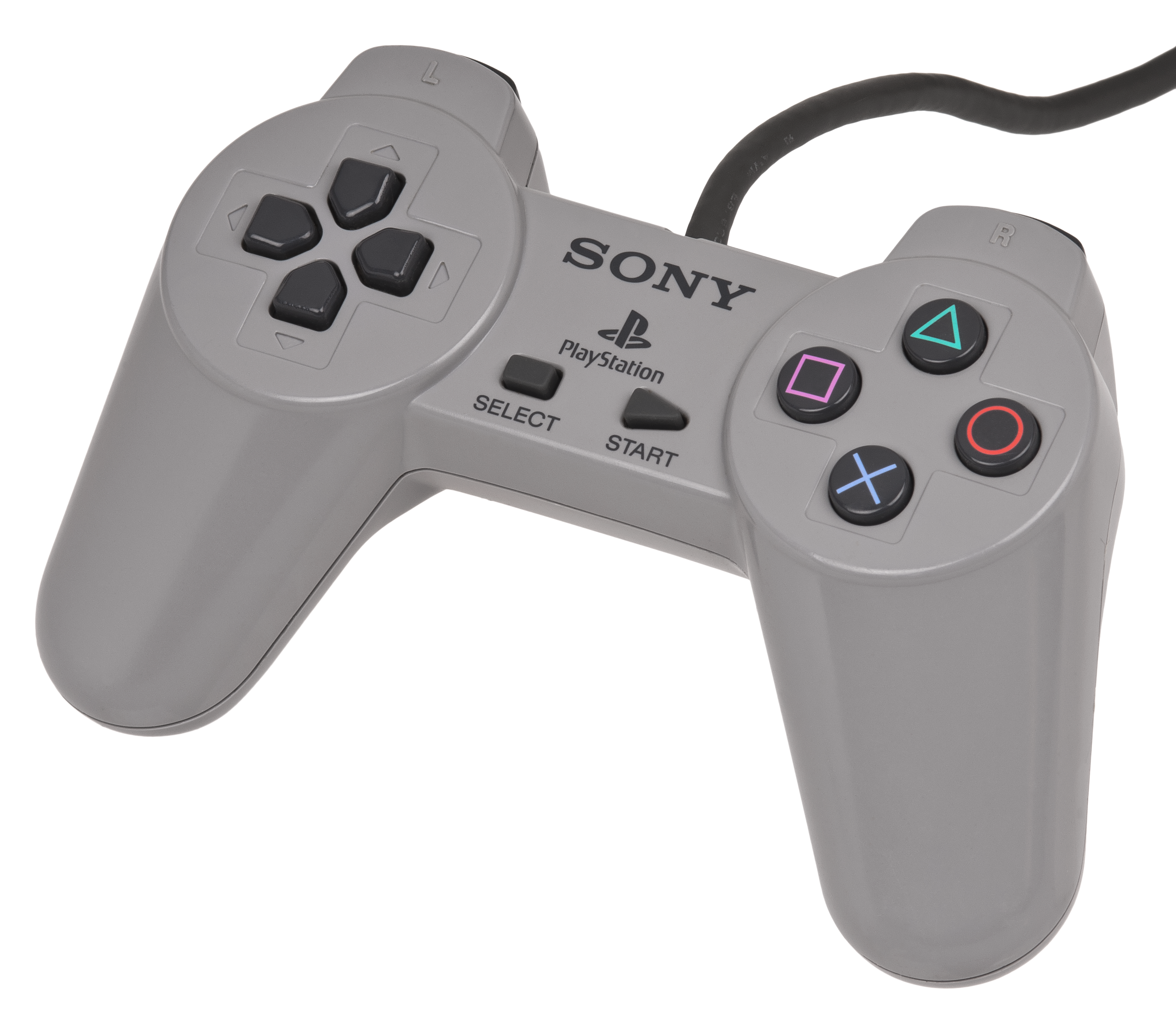 An original Sony PlayStation controller. The first controller released for the PlayStation and packed in with the system until it was replaced by the DualShock.